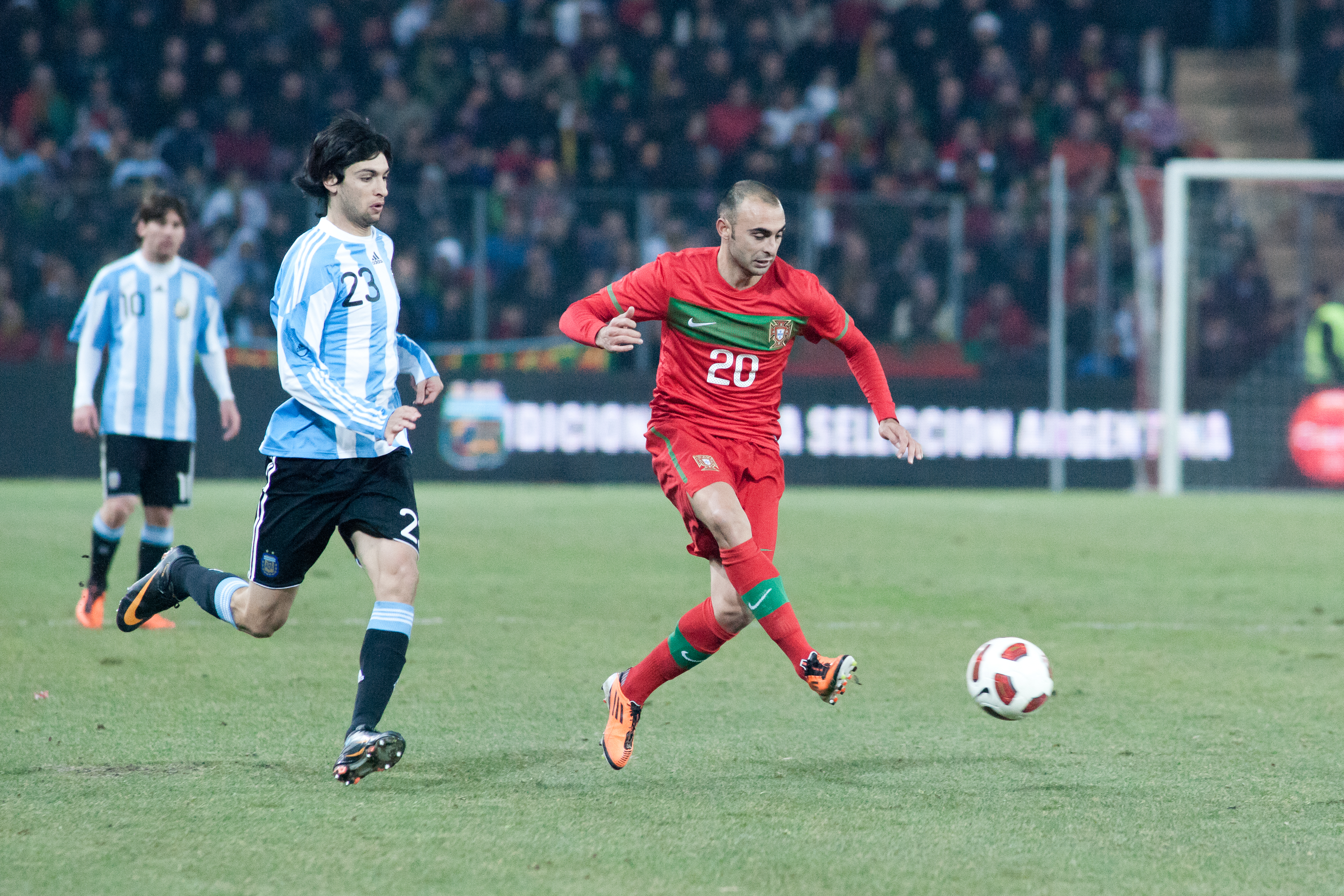 Portugal vs. Argentina, Geneva Switzerland, 9th February 2011